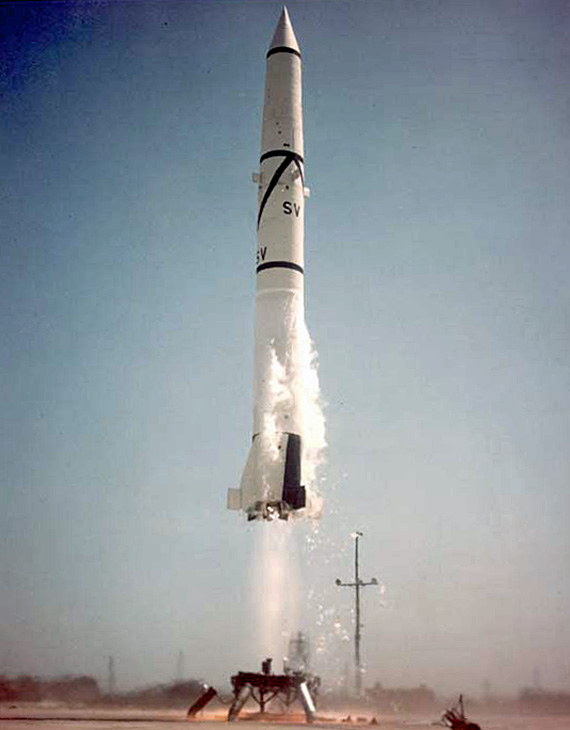 Redstone research and development missile number CC-56 launch at Atlantic Missile Range (AMR), Cape Canaveral, Florida.